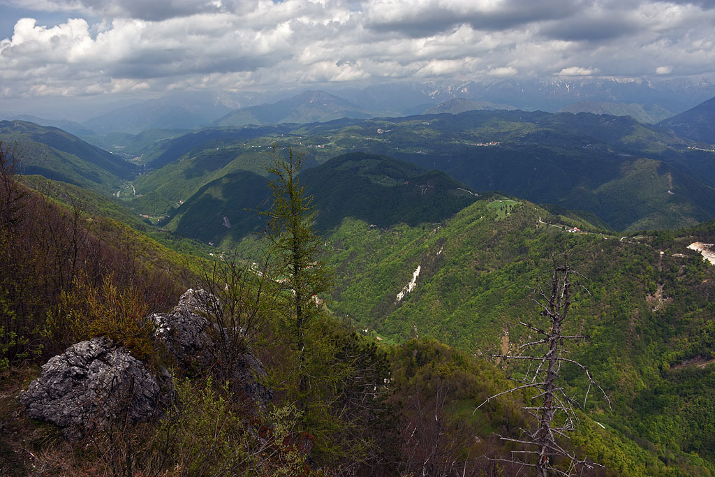 Hudournik is a nice viewpoint on the edge of Vojsko plateau. This image shows the view on the straight Kanomlja valley, caused by Idria geological fault.